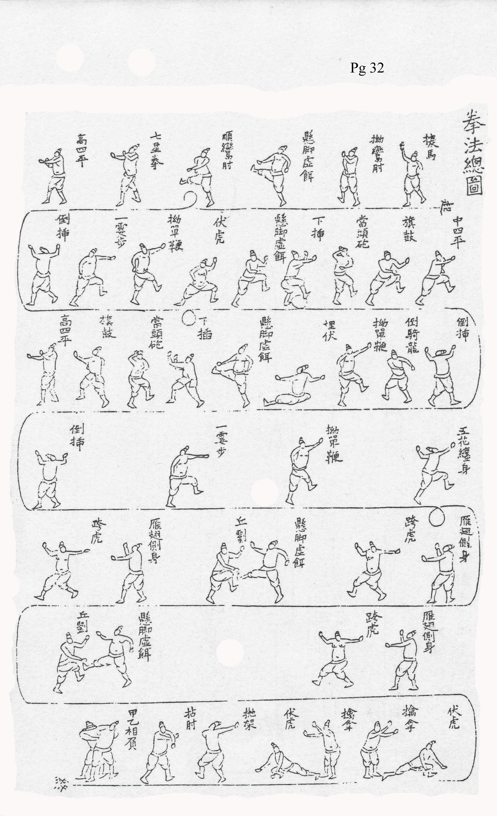 31st Page of Commentary and Illustrations